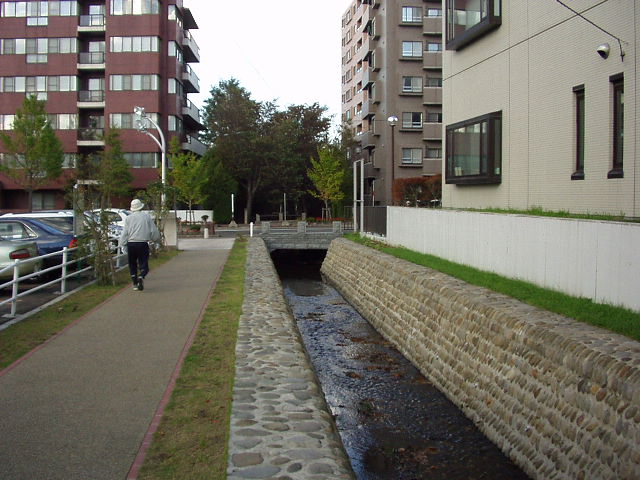 Makomanai Canal. Sapporo, Hokakidō prefecture, Japan.